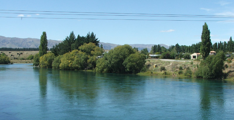 The Clutha River at Albert Town, New Zealand. Photo by James Dignan (User:Grutness), taken February 2008.